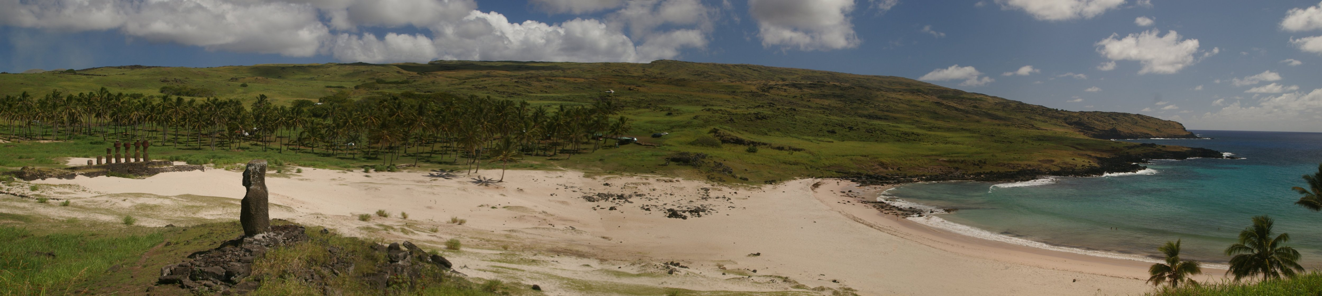 Panorama of Anakena, Easter Island with two Ahu: the one in the foreground has one Moai; the one in the background has several.